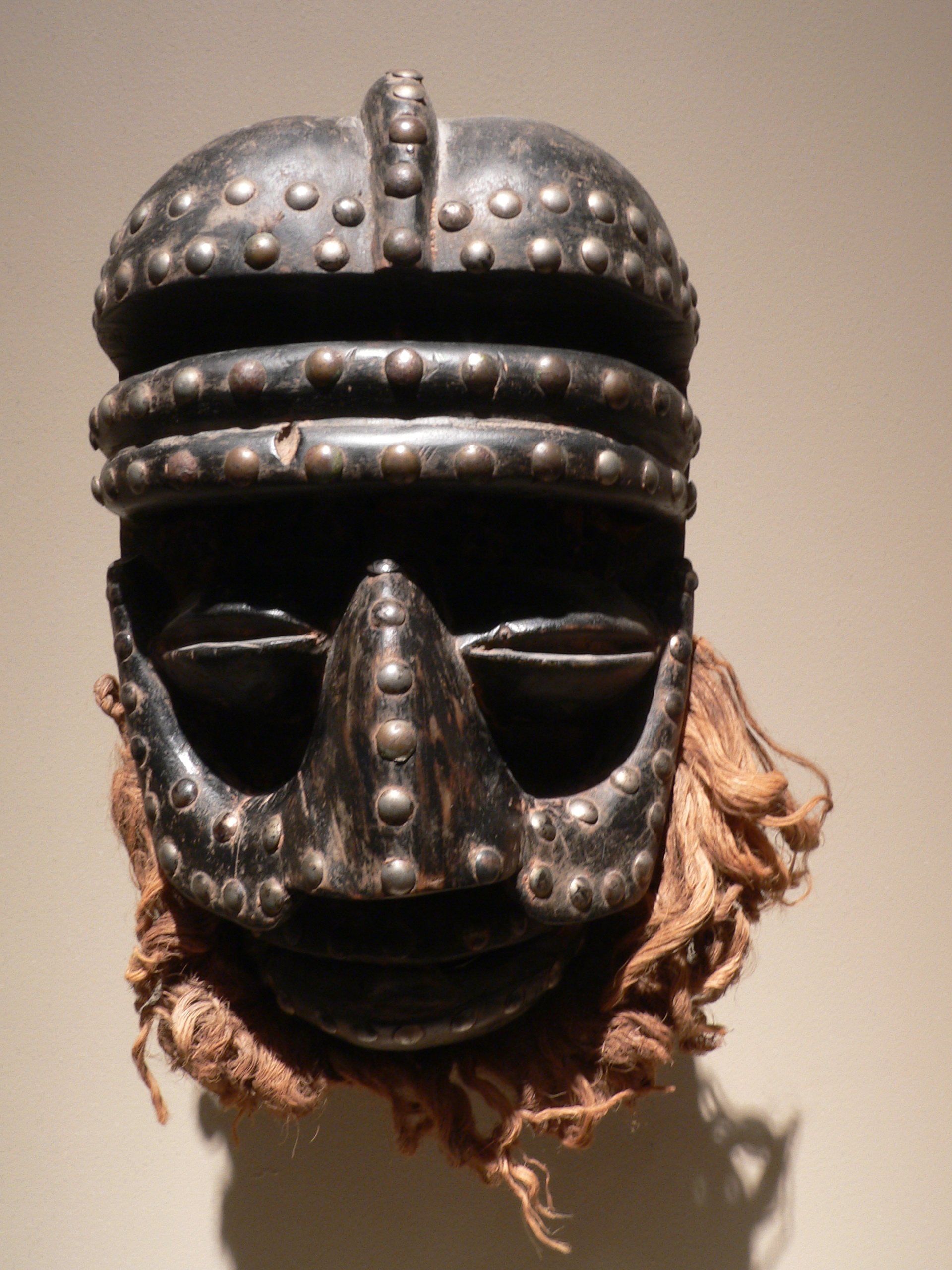 Bété, Ivory coast Mask, 20th century, Wood, metal and fiber